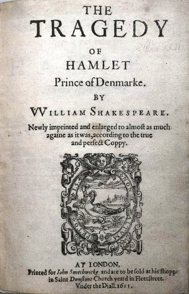 Title page of Hamlet, 3rd quarto, 1611